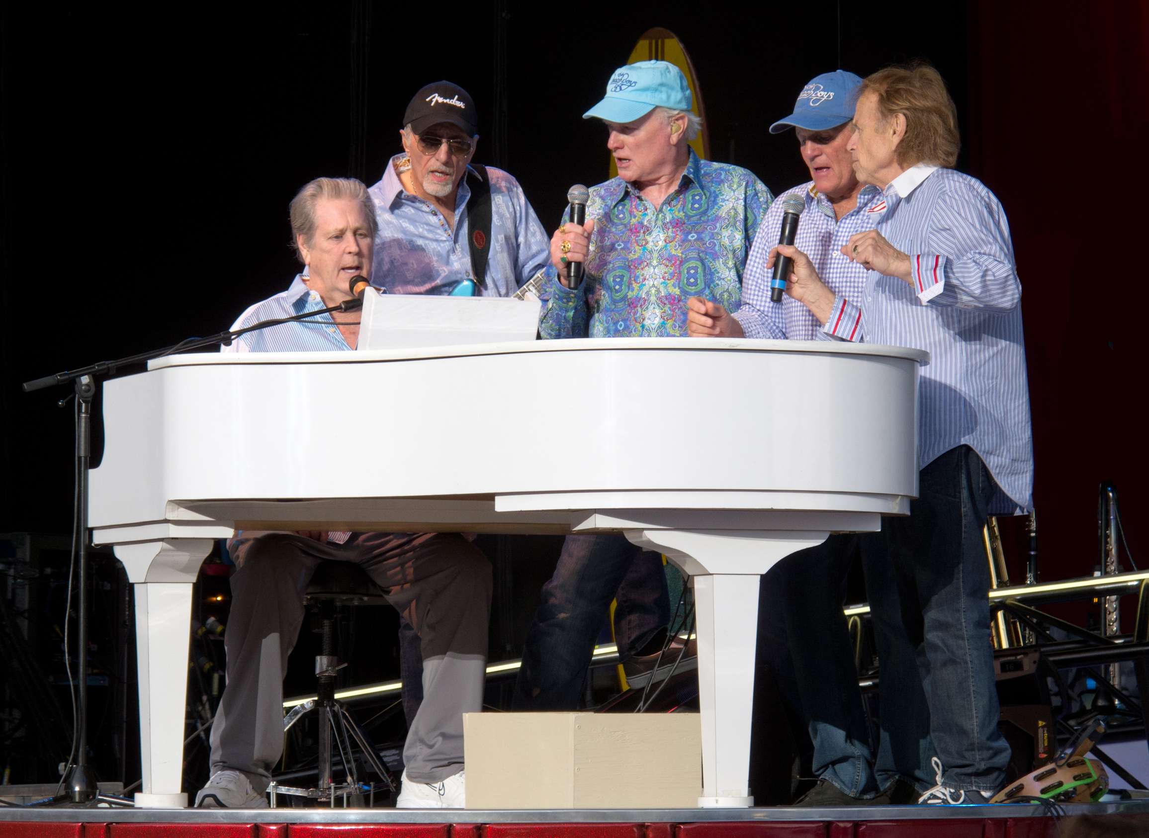 Brian Wilson, David Marks, Mike Love, Bruce Johnston and Al Jardine performing at a Beach Boys concert in May 2012.